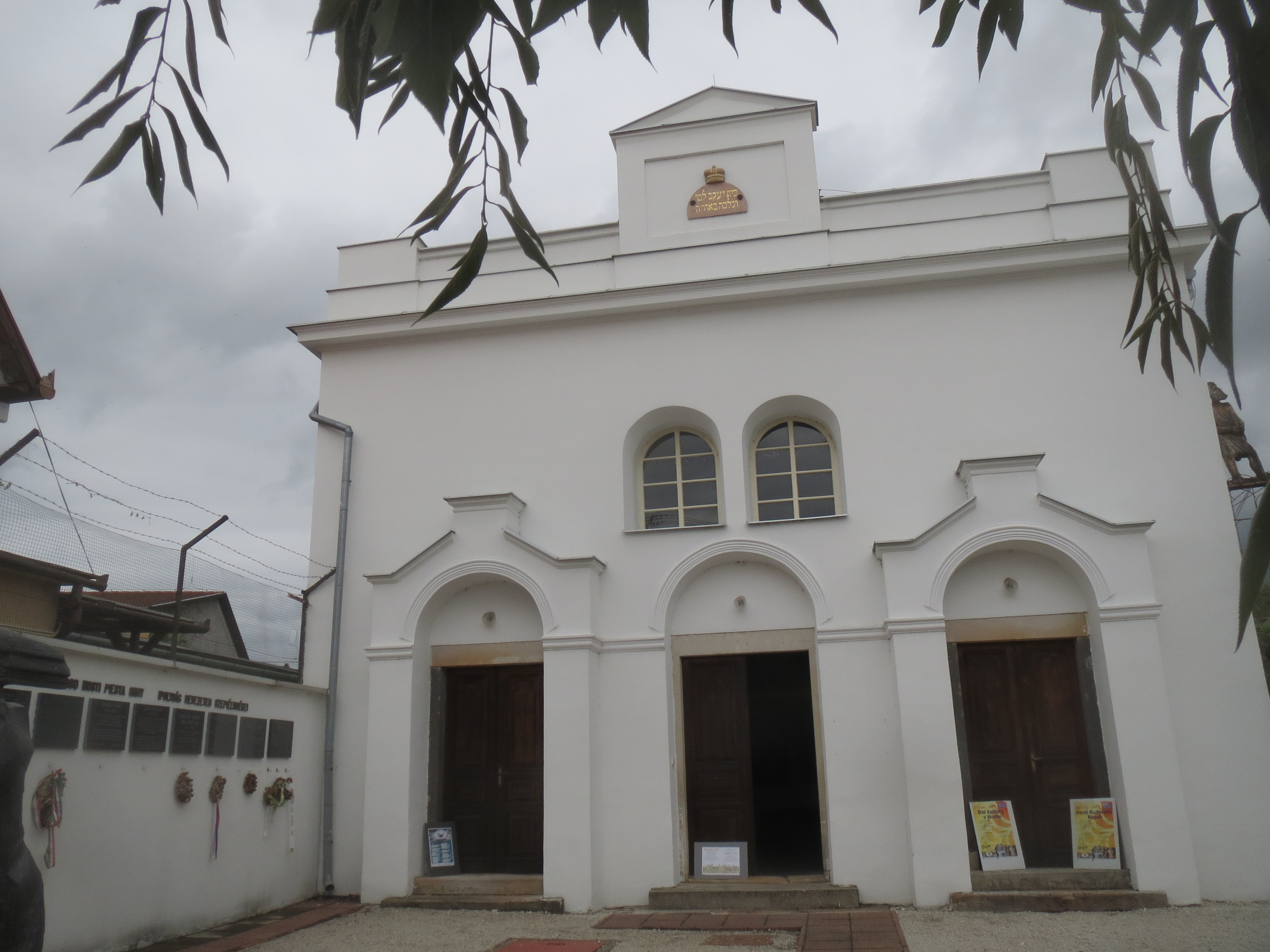 Front Status Quo Synagogue Šahy